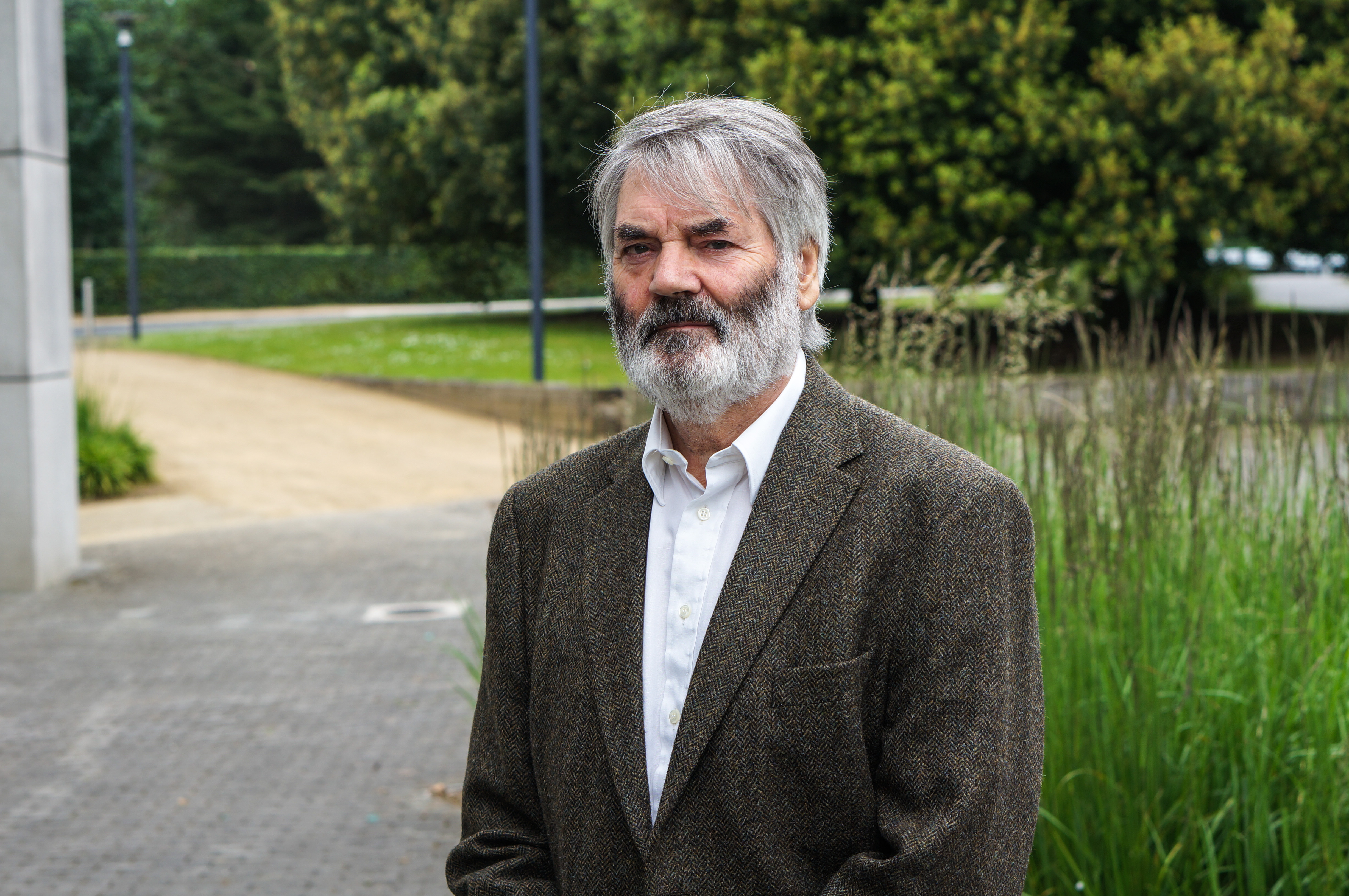 former Irish Labour Party politician. He was President of the Workers' Party and subsequently leader of Democratic Left; later, he was a senior member of the Labour Party. He was Minister for Social Welfare from 1994 to 1997.[1] He was a Member of the European Parliament for the Dublin constituency from 1989 to 1992 and from 1999 to 2012.